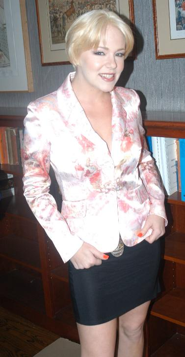 Missy Monroe On Set With Da Vinci Load From Hustler Video.